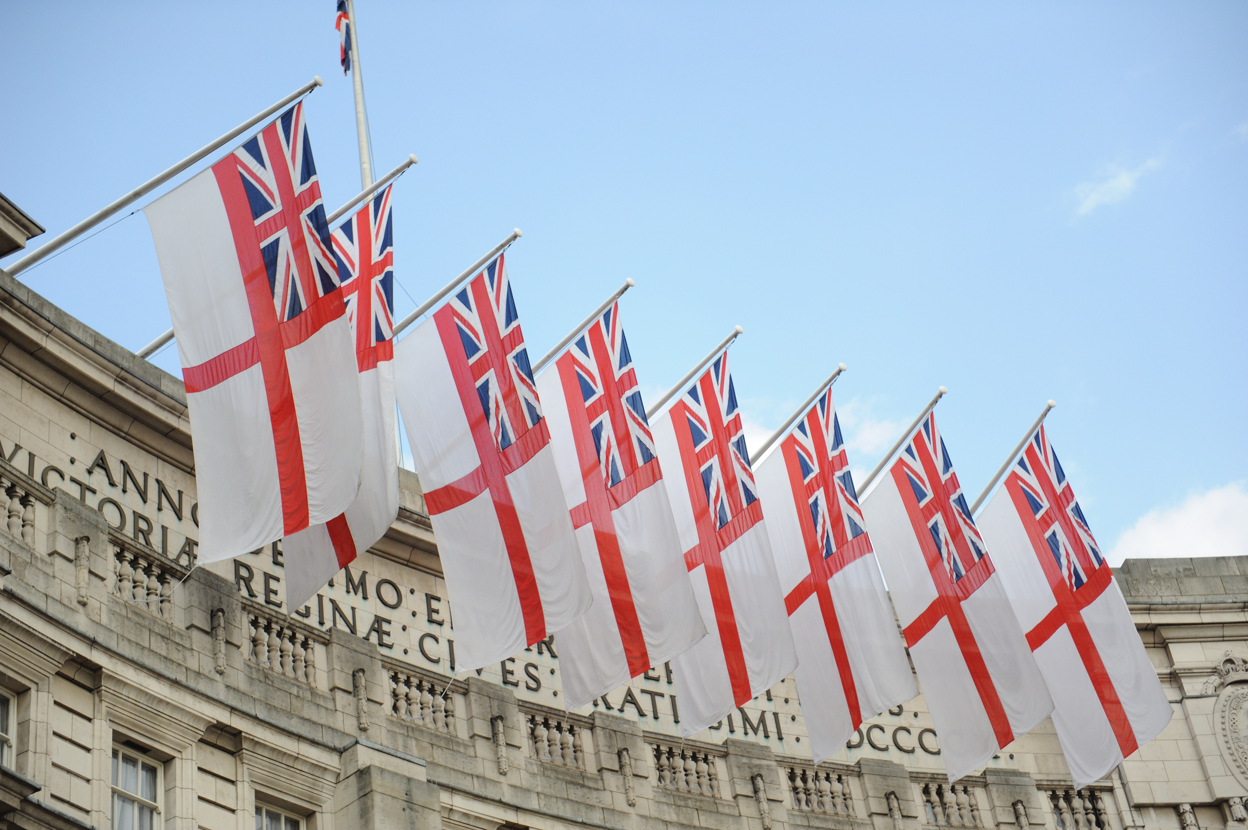 This photo was taken on April 23, 2011 in Trafalgar Square, London, England, GB